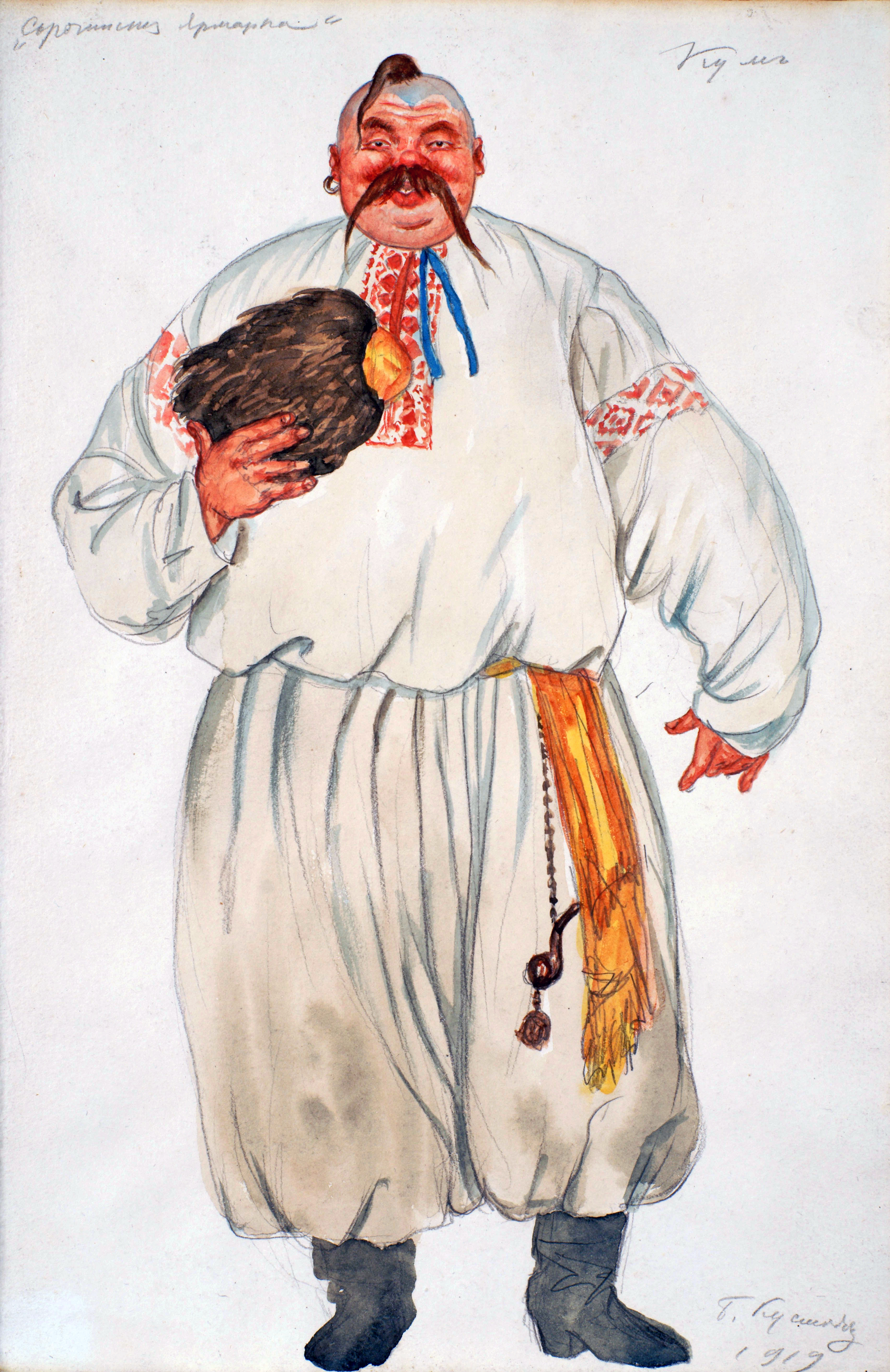 Costume Design for Kum from "The Fair at Sorochyntsi" by Modest Mussorgsky, signed, titled, inscribed "Sorochinskaya yarmarka" in Cyrillic and dated 1919. Pencil and watercolour on paper, 33 by 21 cm. Provenance: Private collection, Europe.